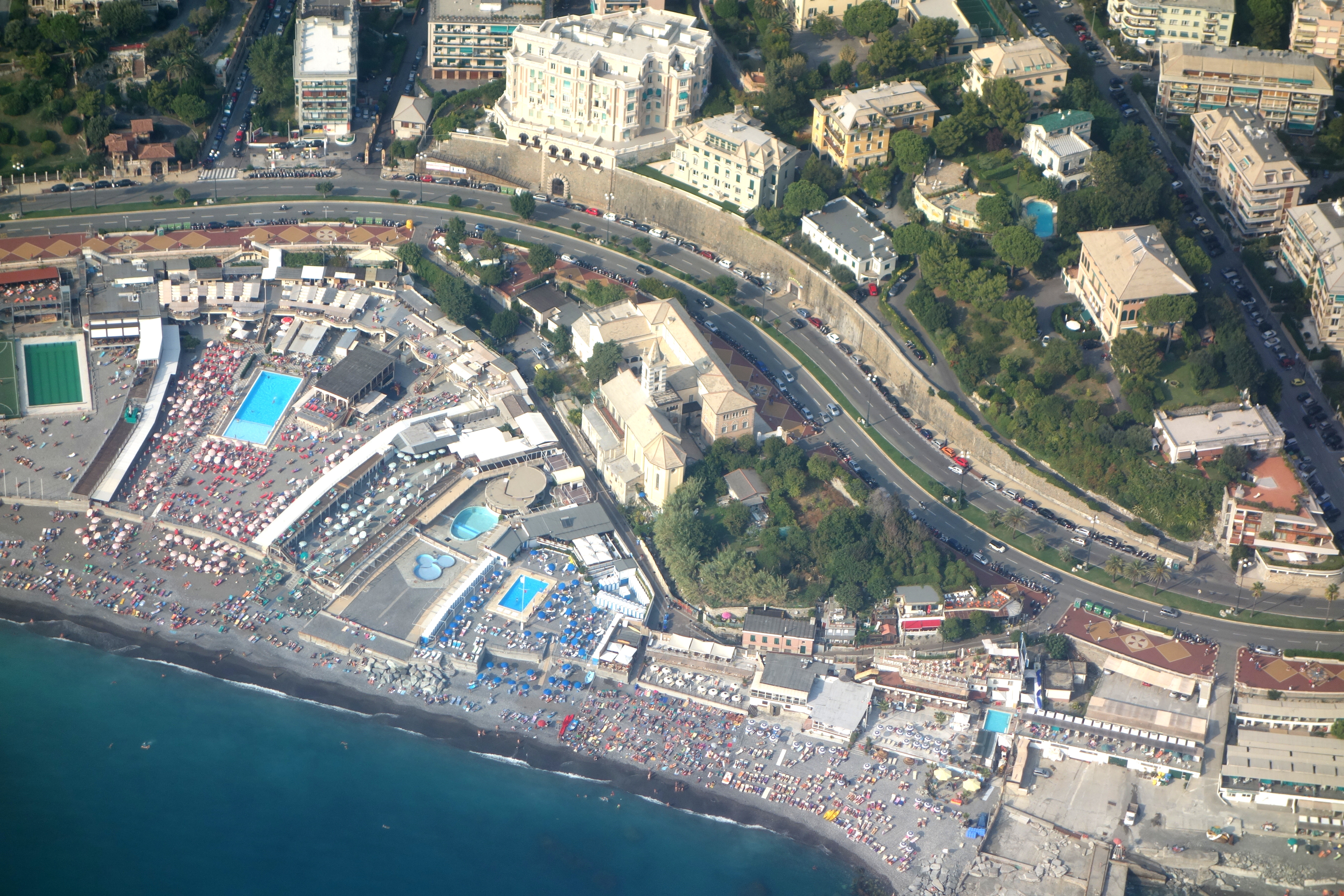 Aerial view - Corso Italia, Genova, Italy.